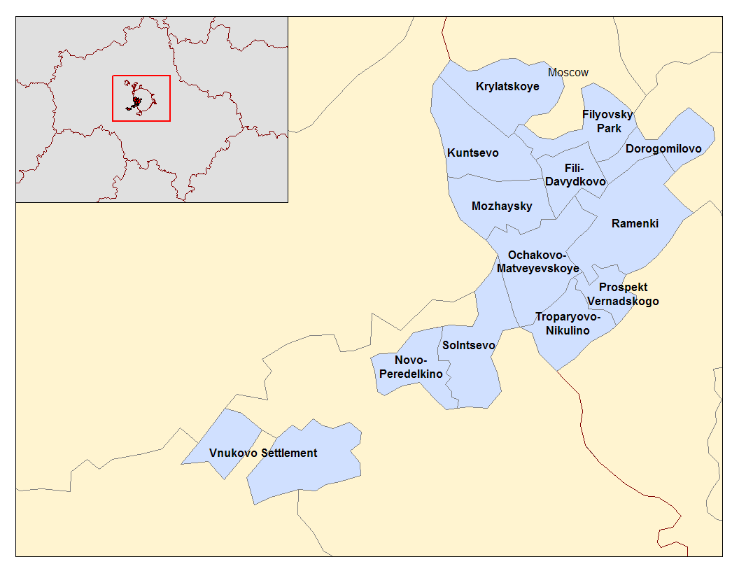 Map of the districts of the Western Administrative Okrug of the Federal City of Moscow. Created by Rarelibra 20:51, 3 April 2007 (UTC) for public domain use, using MapInfo Professional v8.5 and various mapping resources.